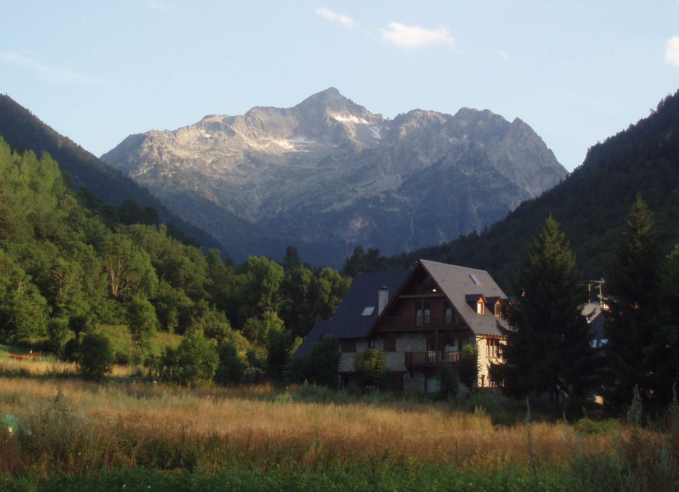 Peak Montardo, in Central Pyrenees (province of Lleida, Spain).